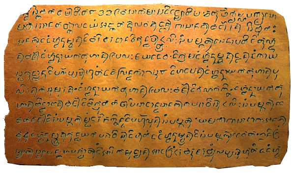 The Laguna Copperplate Inscription (circa 900AD) from the Laguna de Bay area in Luzon, the Philippines. The script used is based on the Indian Pallava used around the same period throughout India and Southeast Asia, showing heavy influence in the pre-colonial period of Philippine culture.